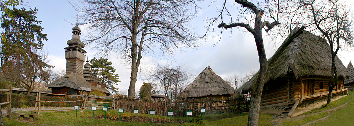 Uzhhorod, Ukraine. Open Air Museum of Architecture, wooden architecture date: 20-11-2005 author: Elke Wetzig (elya)